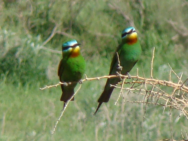 Blue-cheeked Bee-eater (Merops persicus). Baikonur-town, Kazakhstan.